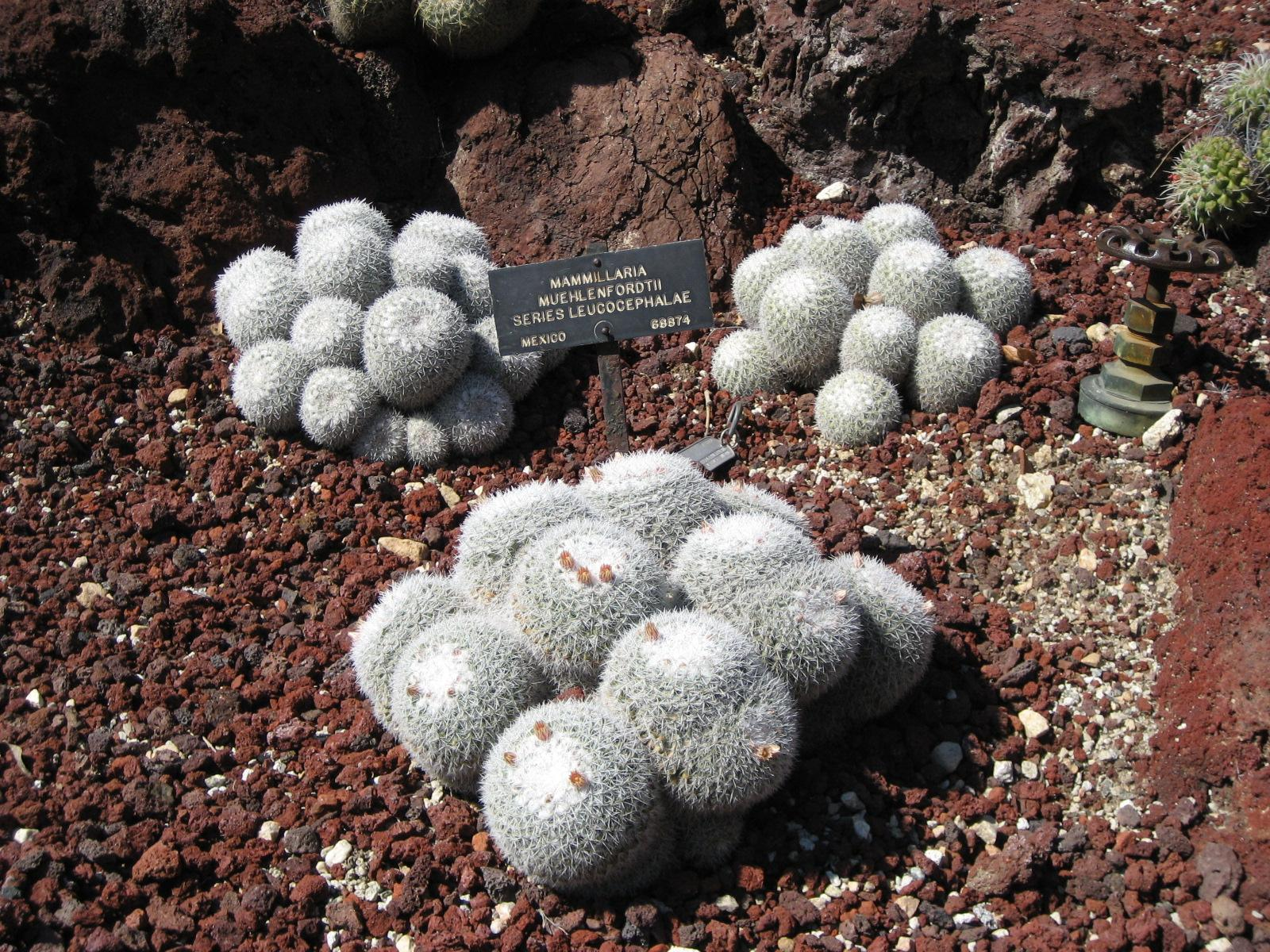 Photographed at Huntington Gardens (Los Angeles) in March